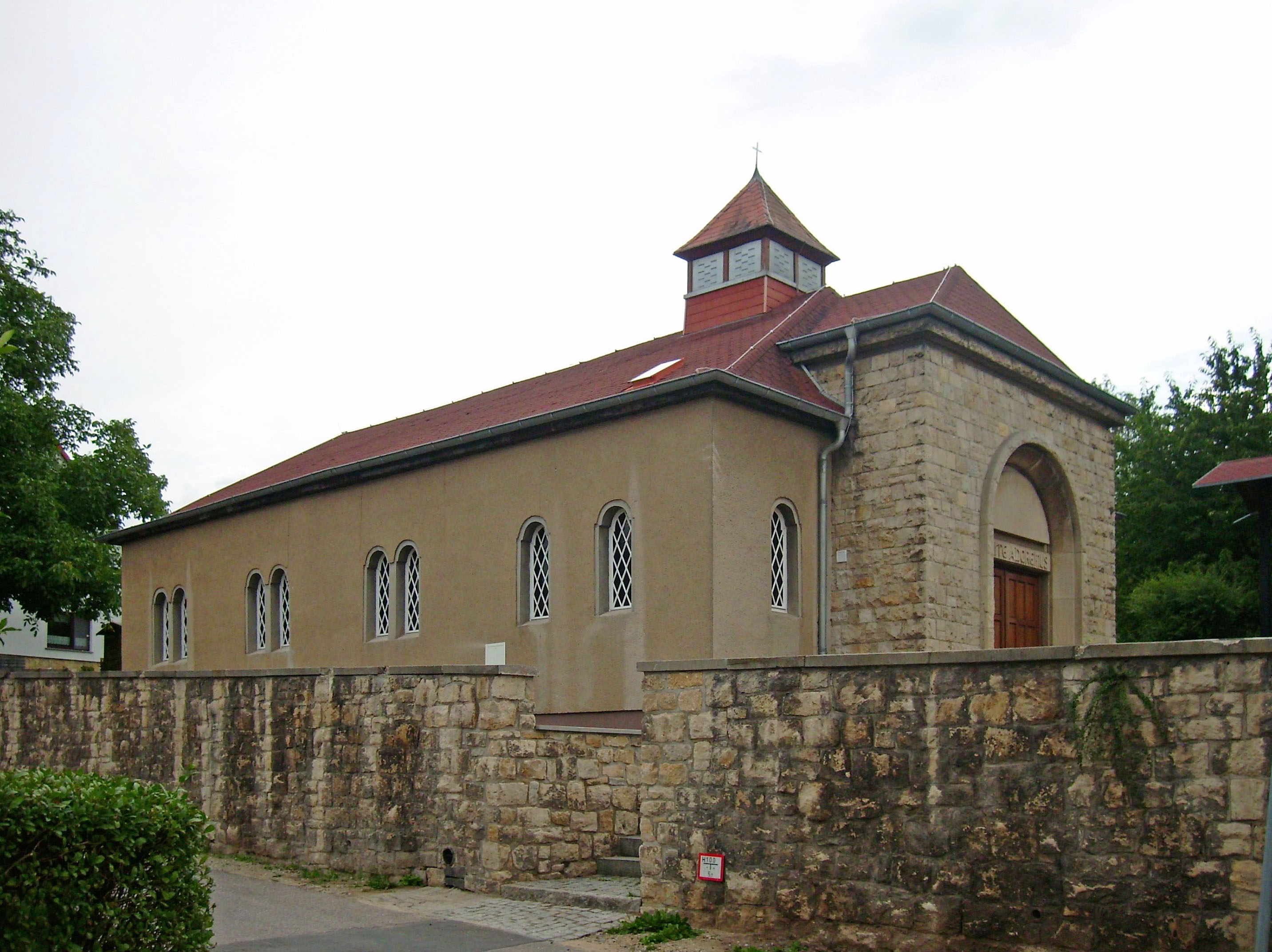 The Roman Catholic church of Neubiendorf (Mücheln/Geiseltal, district of Saalekreis, Saxony-Anhalt), in use between 1928 and 2006